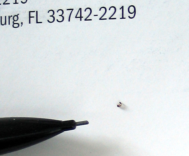 This is a close up of a pharaoh ant in Tampa, FL. It is not magnified, just an extreme close up using a high resolution digital camera. It includes a mechanical pencil tip for perspective to illustrate just how small these ants are.